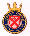 coat of arms of ENS Admiral Cowan